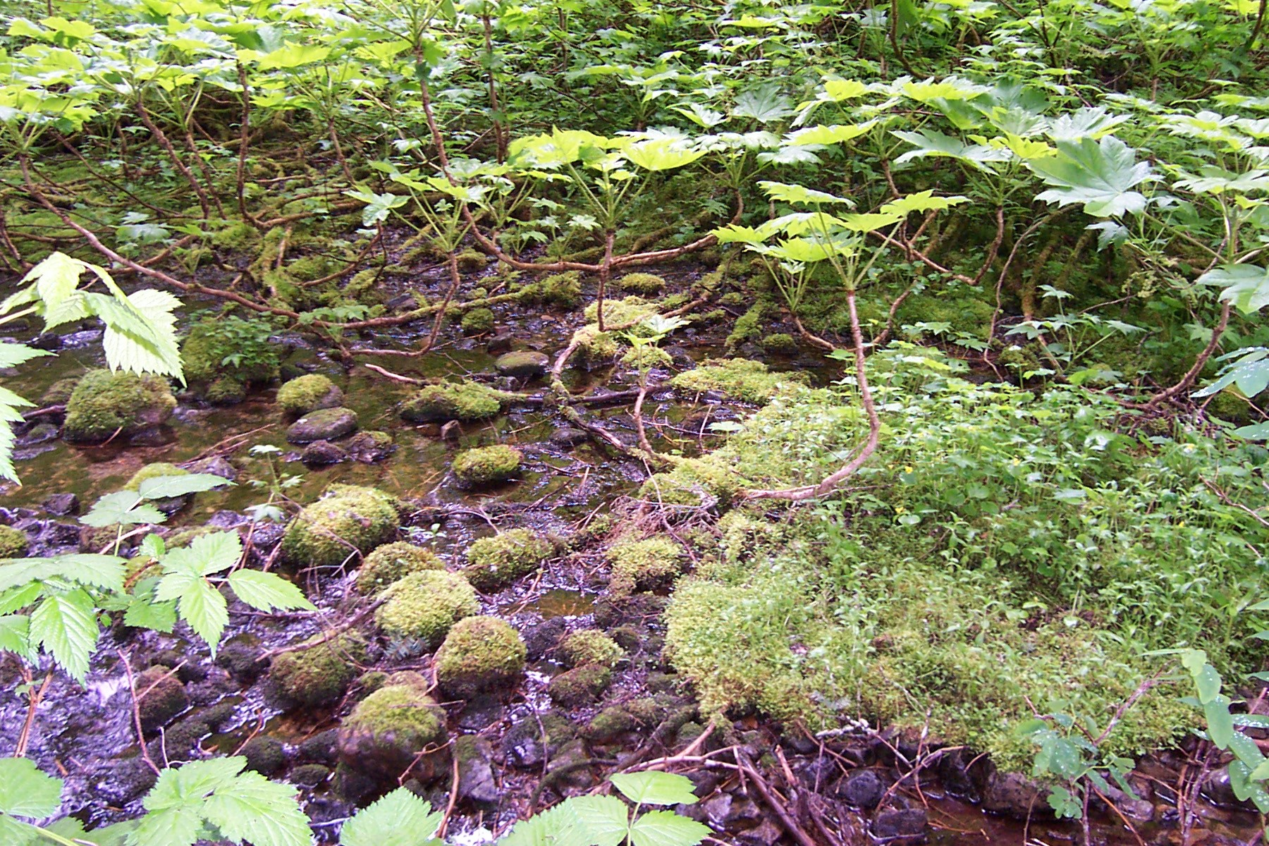 Underbrush, Gold Creek/Alaska Lake, Washington, USA